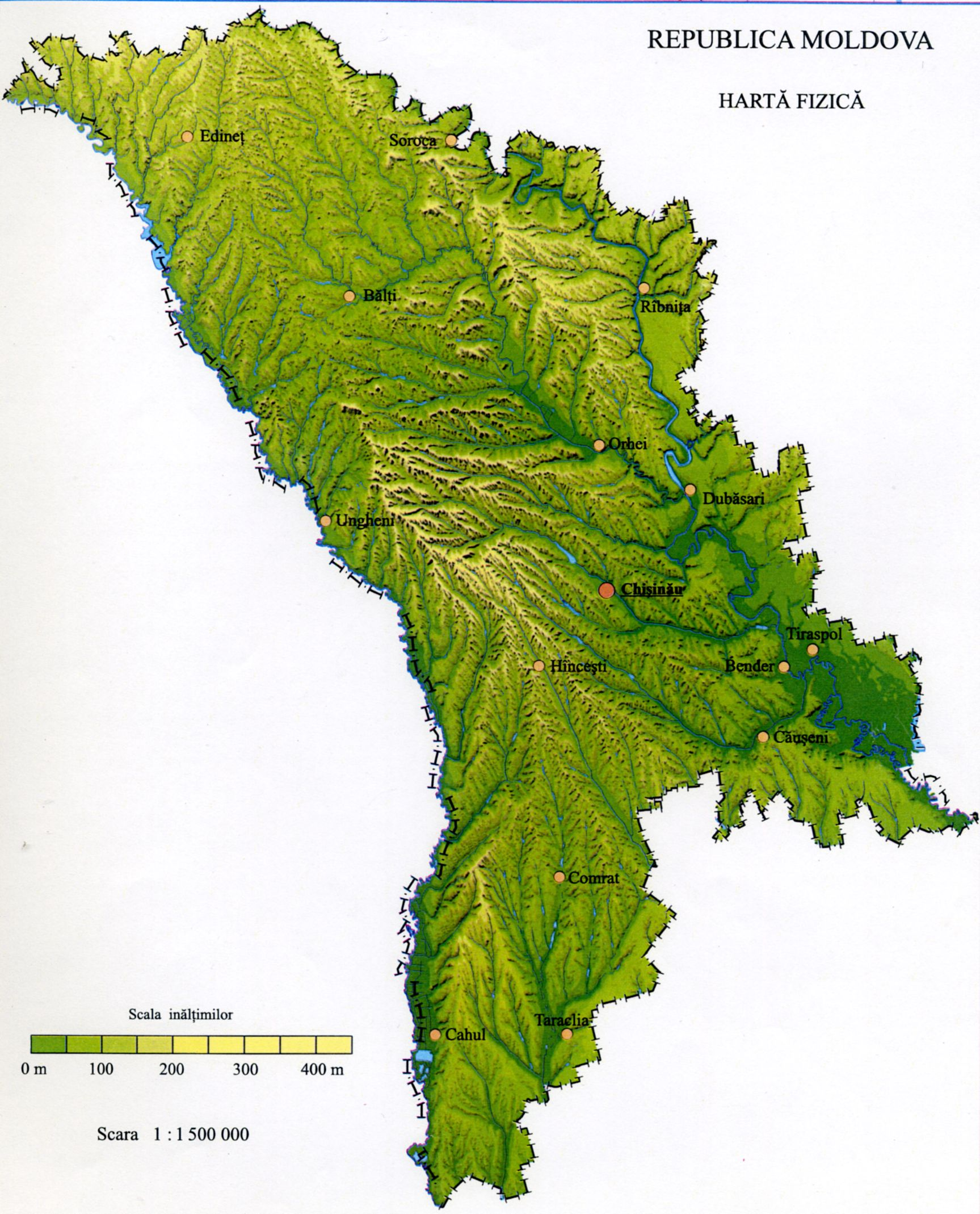 Physical map of Moldova